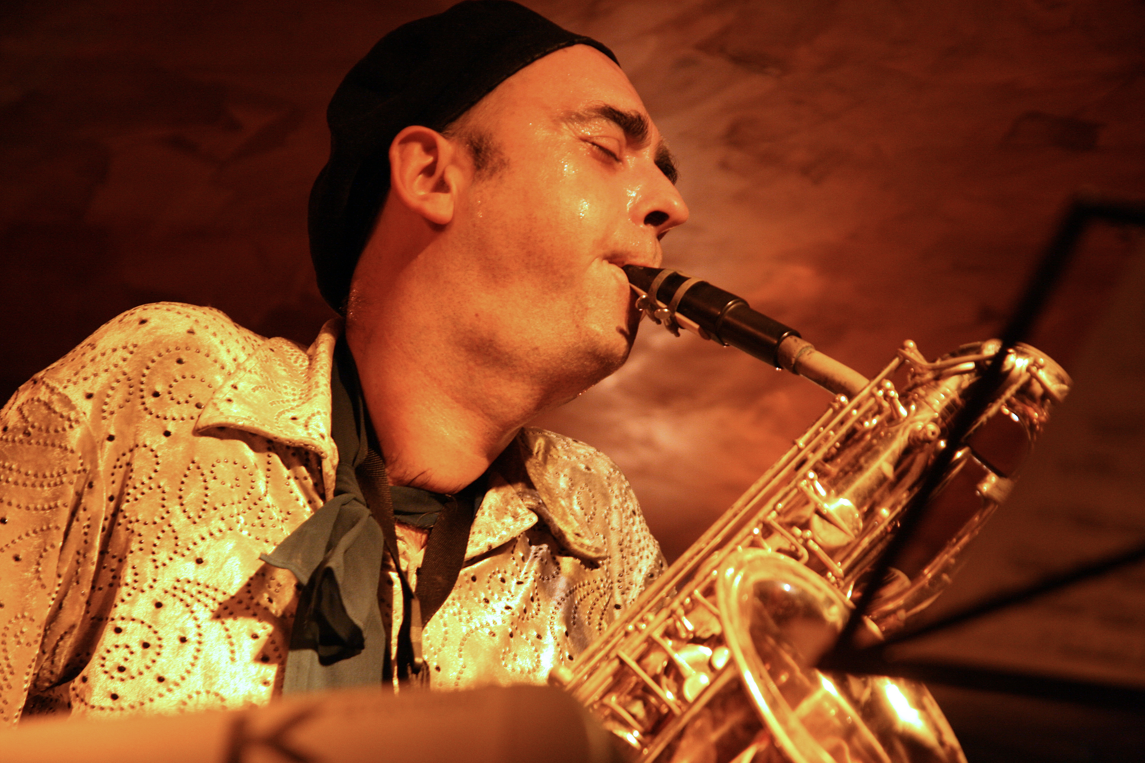 Christophe Monniot, French jazz saxophonist